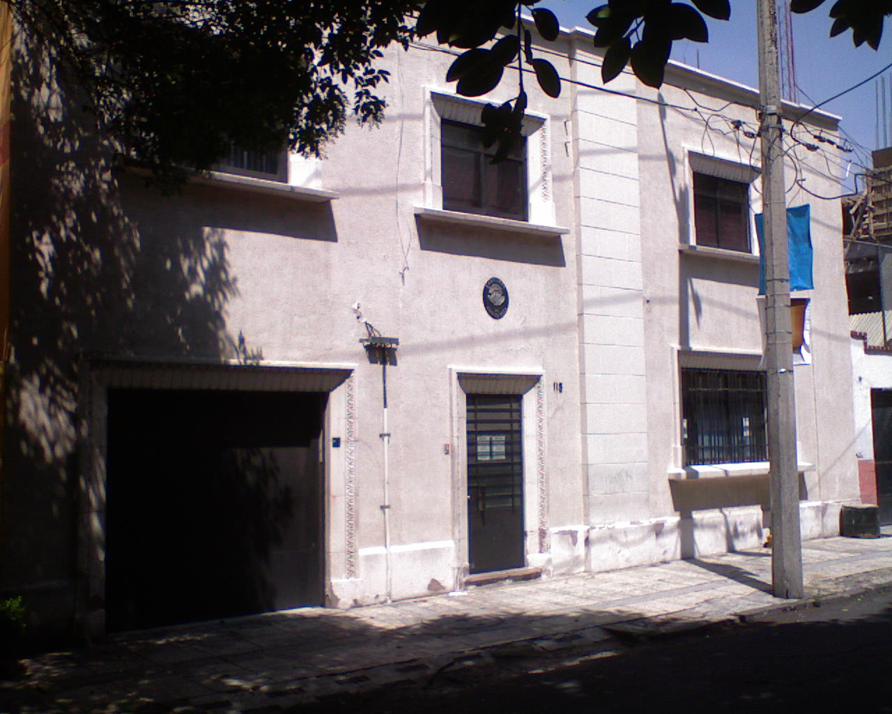 Embassy of Costa Rica in Mexico City